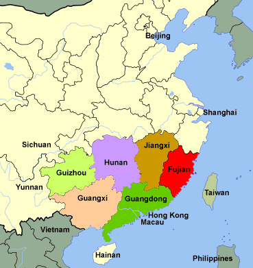 Derivative of blank map of China in Commons